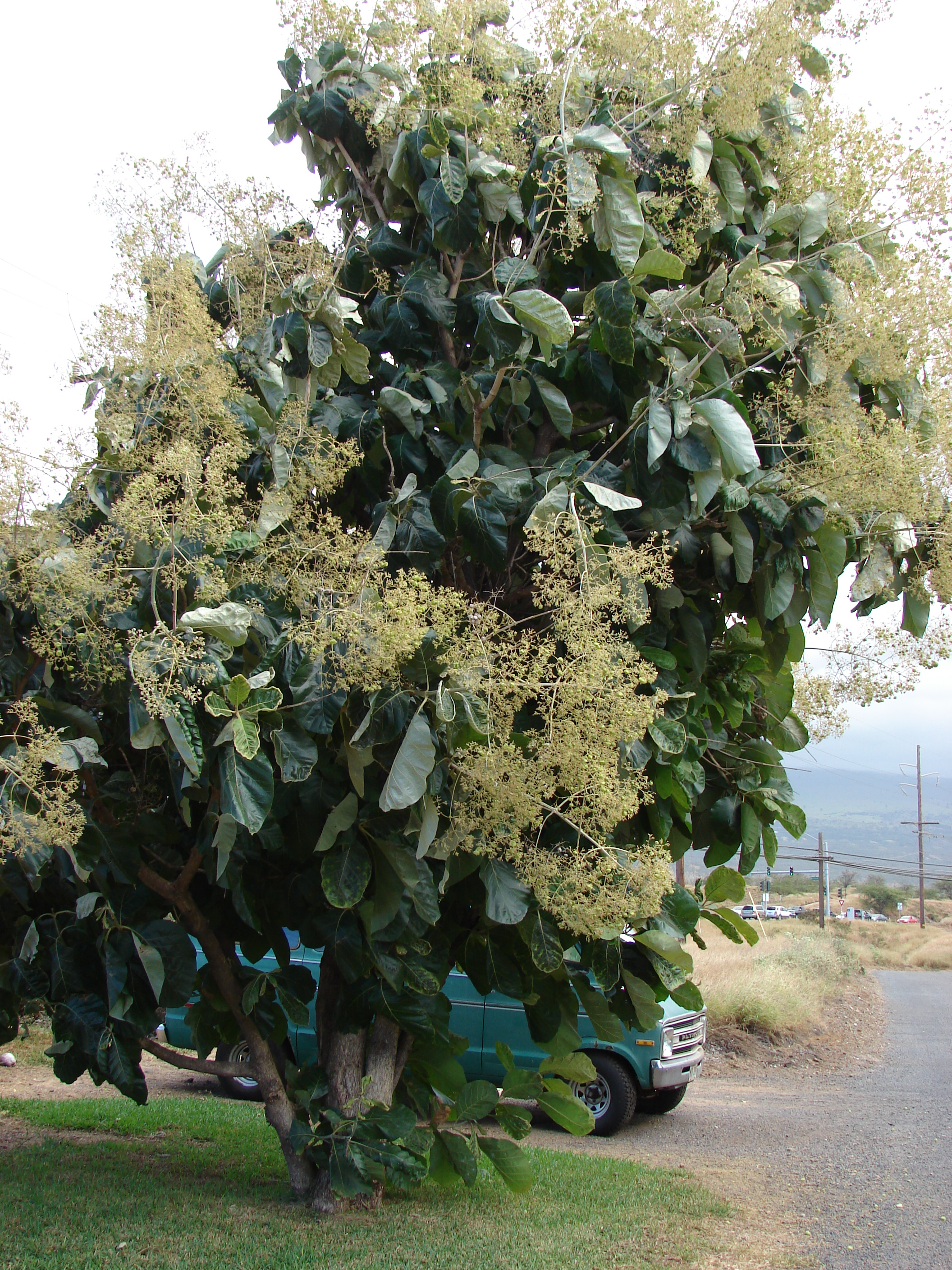 Tectona grandis (fruiting habit). Location: Maui, Kihei